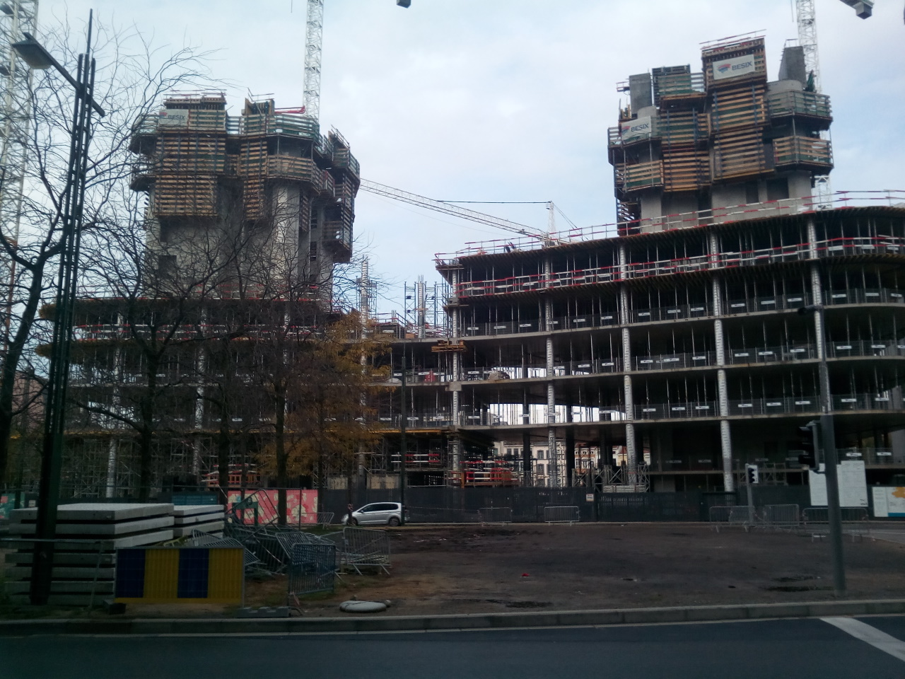 Quattuor building in Brussels under construction October 2019